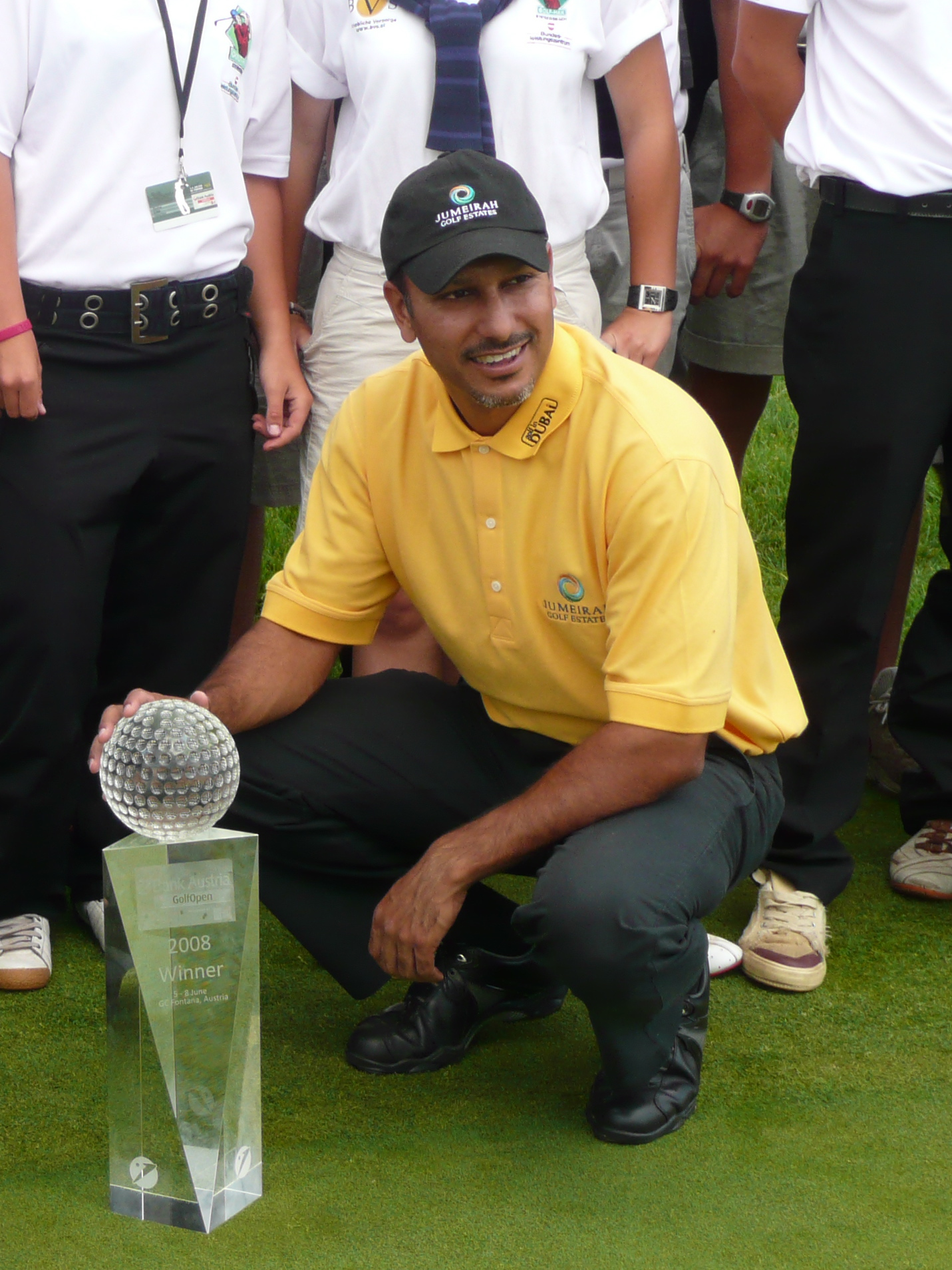 The winner Jeev Milkha Singh receiving his trophy for winning the 2008 Bank Austria GolfOpen presented by Telekom Austria (European Tour) at Golfclub Fontana.